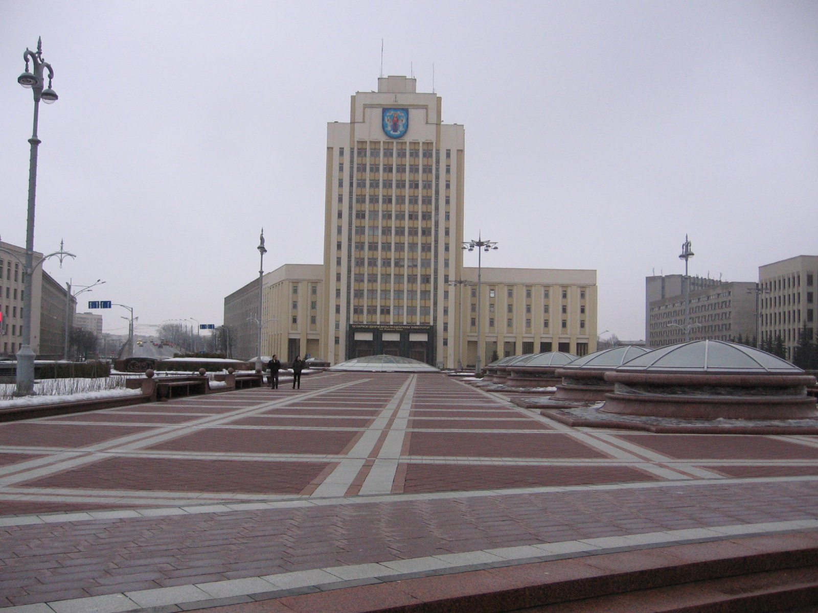 Belarusian State Pedagogical University.